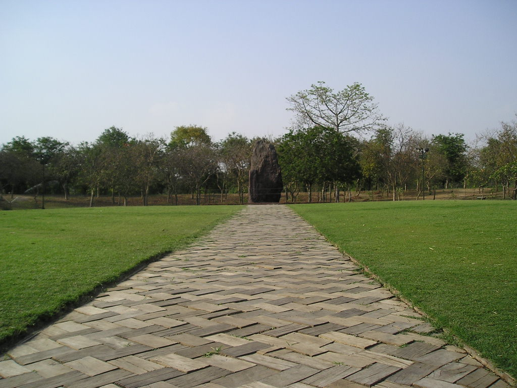 Jawaharlal Nehru's samadhi to the north of the Raj Ghat and known as the Shantivan or Shanti Vana meaning the forest of peace. The area has a beautiful park adorned with trees planted by visiting dignitaries and heads of state. His grandson Sanjay Gandhi's samadhi is adjacent to it.